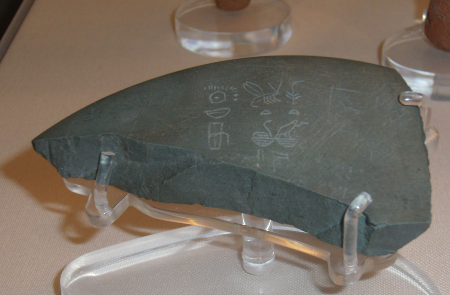 Fragment of a stone vessel naming king Nineter, found at Abydos, 2nd Dynasty; British Museum